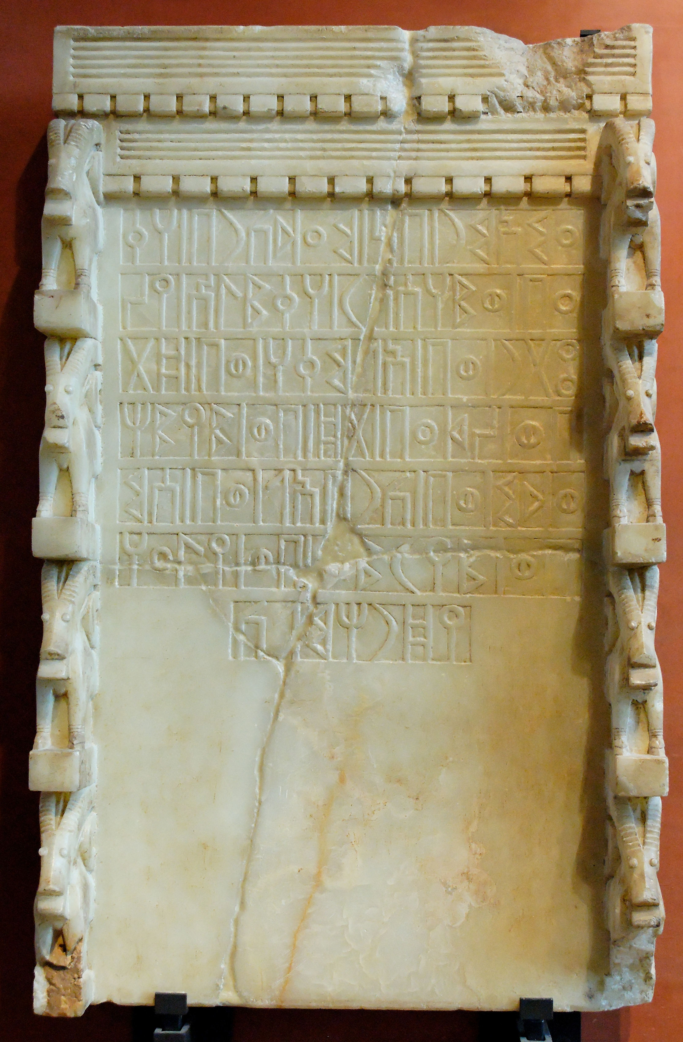 Votive stele with Sabaean inscription adressed to the moon-god Almaqah, mentioning five South Arabian gods, two reigning sovereigns and two governors: “Ammî'amar son of Ma'dîkarib dedicated to Almaqah Ra'suhumû. With 'Athtar, with Almaqah, with dhât-Himyam, with dhât-Ba'dân, with Waddum, with Karib'îl, with Sumhu'alî, with 'Ammîrayam and with Yadhrahmalik.” Alabaster, ca. 700 BC, Yemen, area of Ma'rib (?).